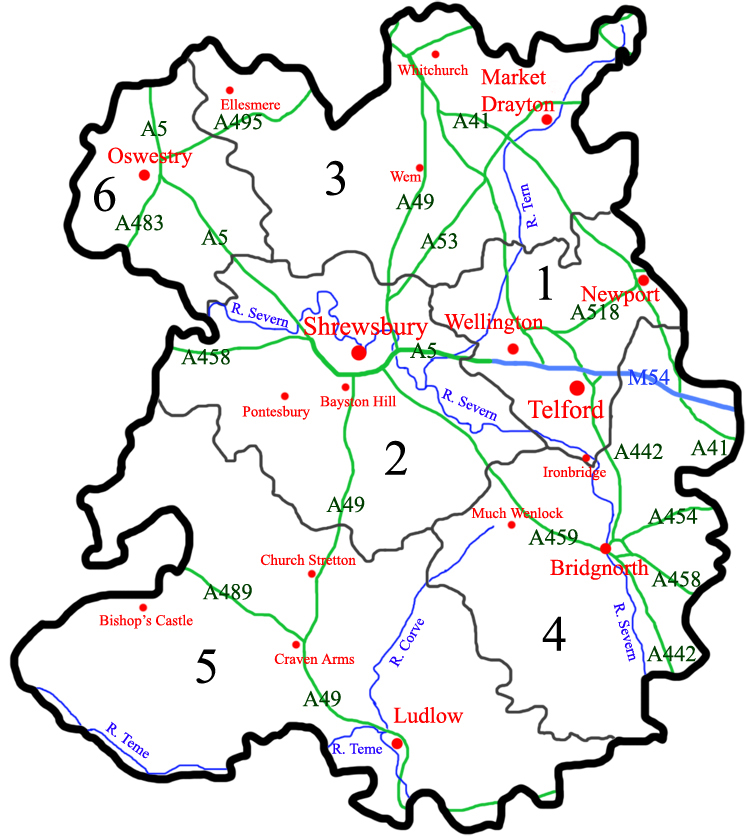 A map of Shropshire in England. Made by Chris Bayley.